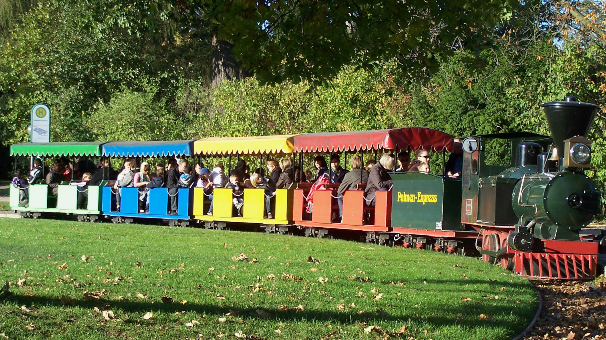 Ridable miniature railway Palmen-Express built in 1972 in the Palmengarten in Frankfurt on Main-Westend at the stop Spielwiese